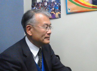 Shun'ichi Yamashita, Vice-President of Fukushima Medical University, was interviewed in Tōkyō Metropolis on January 13, 2012.